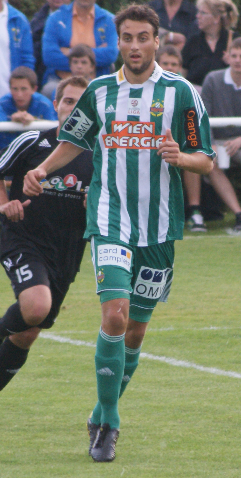 Austrian football player Atdhe Nuhiu